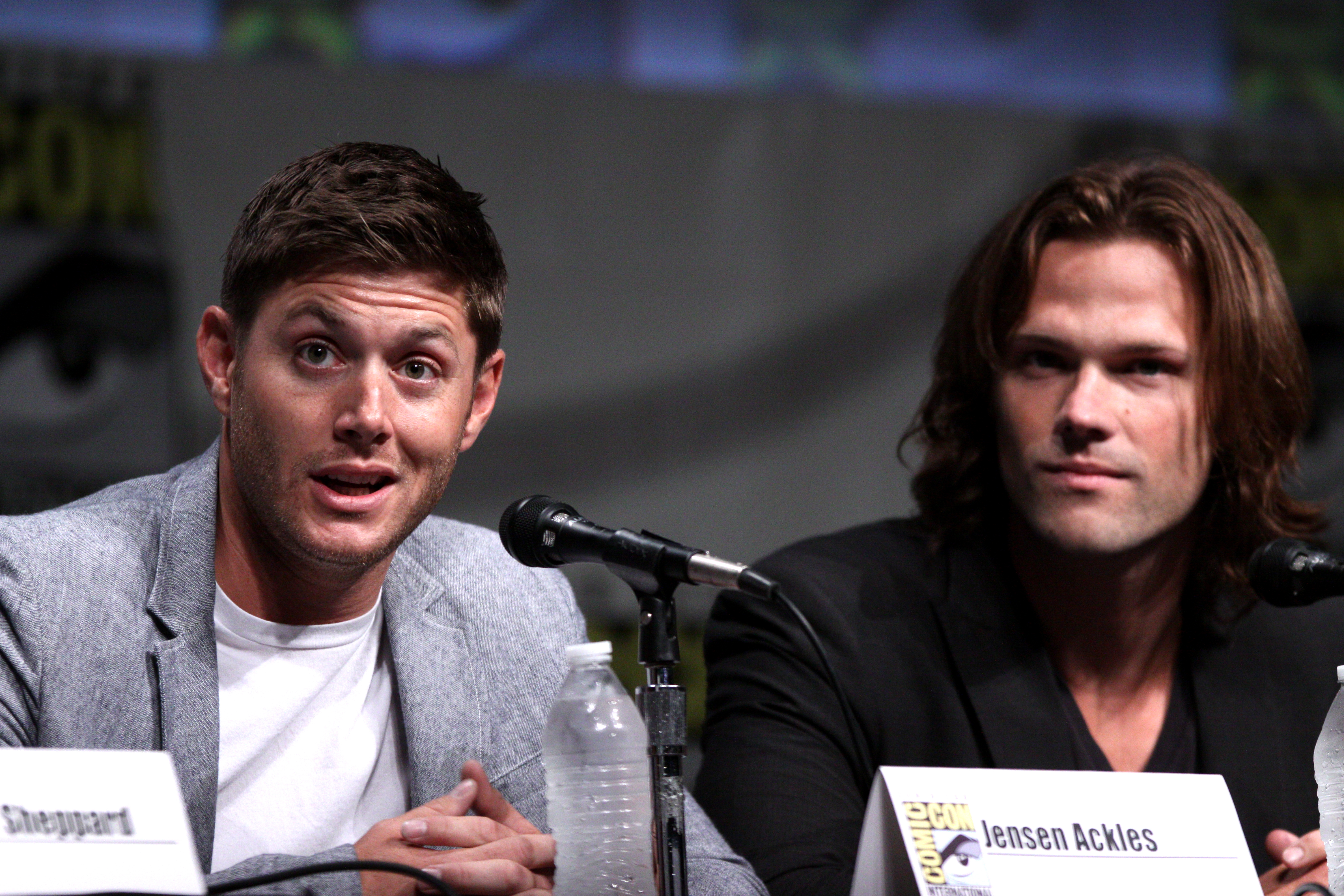 Jensen Ackles & Jared Padalecki speaking at the 2012 San Diego Comic-Con International in San Diego, California.